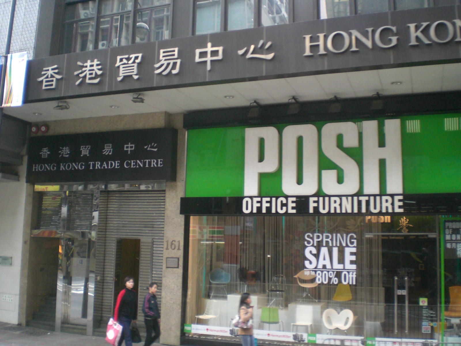 上環zh:德輔道中